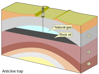 Examples of different forms of hydrocarbon traps: in the core region of anticlines